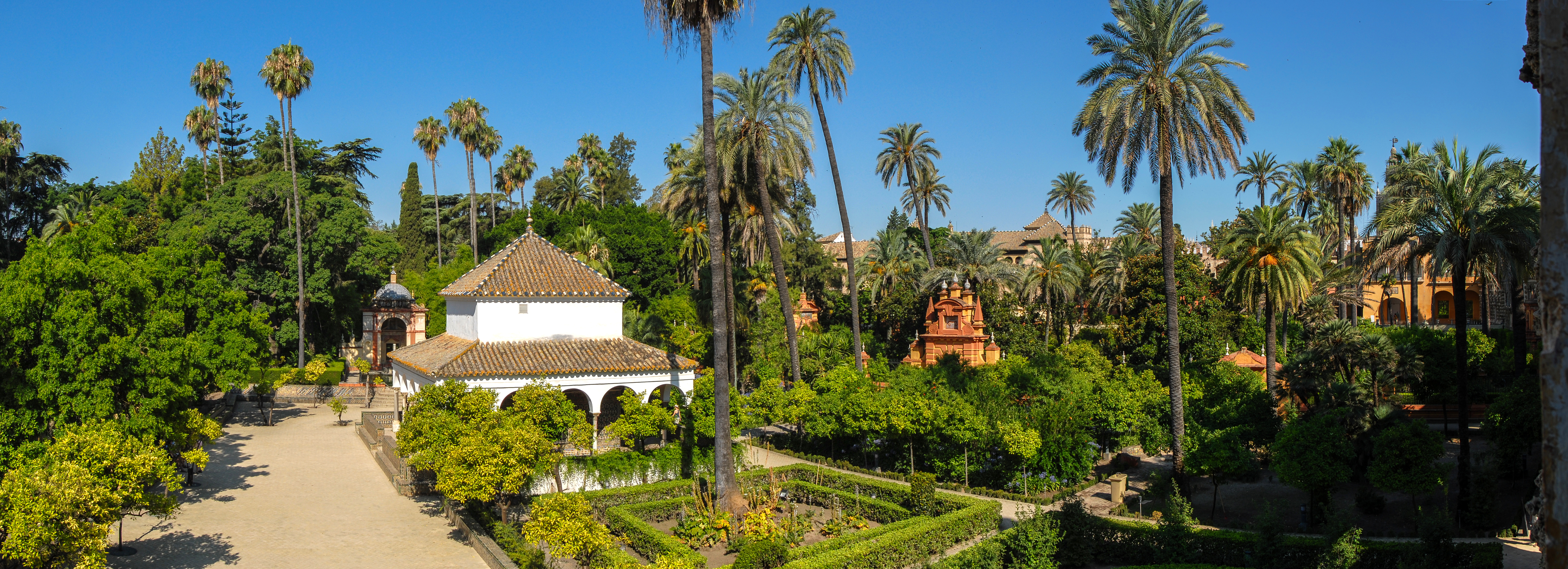 Panorama of gardens in Real Alcazar de Sevilla